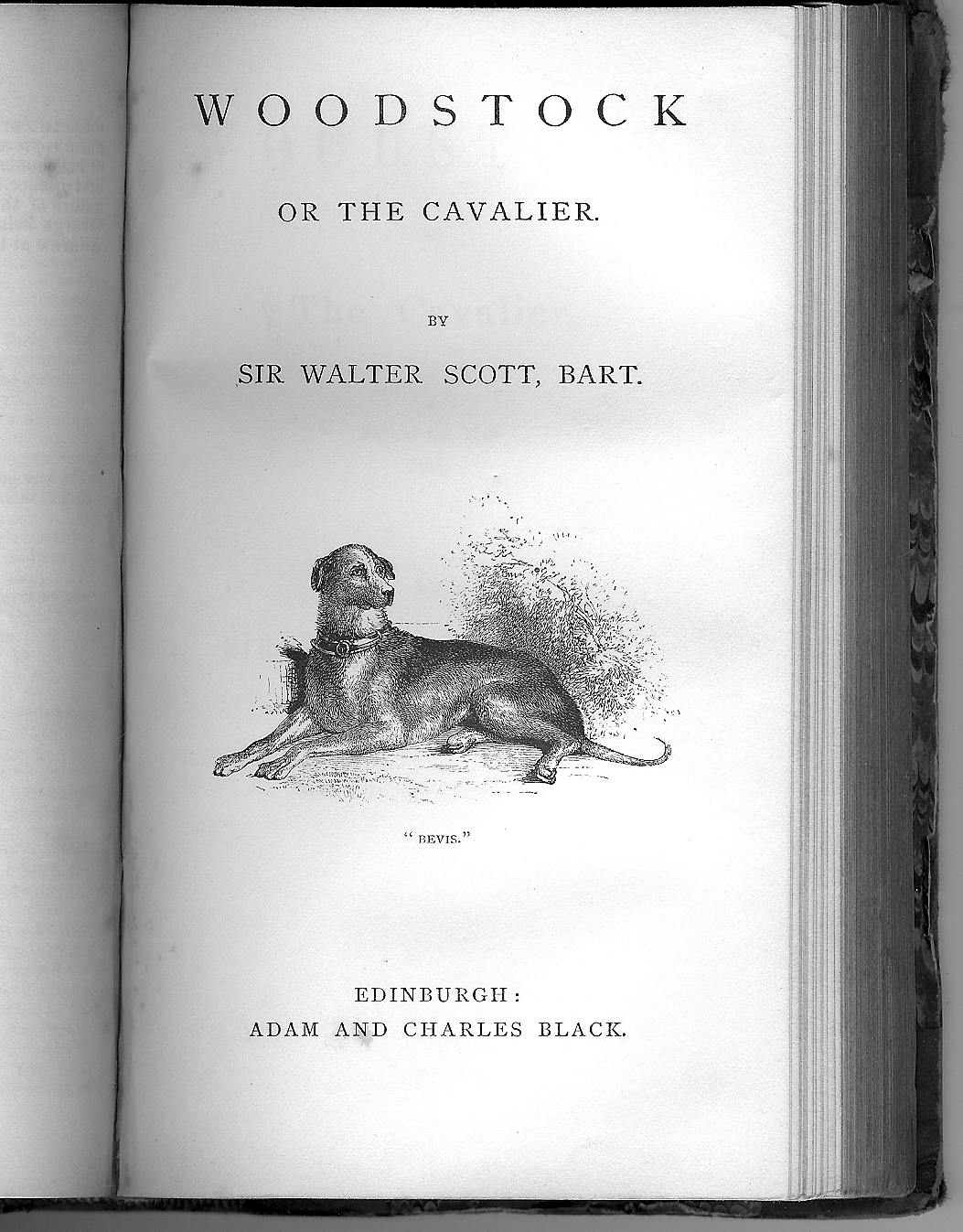 Frontispiece to Woodstock by Walter Scott. Shown as whole page with other pages and cover visible behind. This page occurs about halfway through the volume, which also contains a frontispiece to The Talisman. The caption states " 'Bevis' ". The final paragraph of the novel, and its accompanying footnote, read: "I have only to add that his faithful dog did not survive him many days; and that the image of Bevis lies carved at his master's feet, on the tomb which was erected to the memory of Sir Henry Lee of Ditchley. "[Footnote: It may interest some readers to know that Bevis, the gallant hound, one of the handsomest and active of the ancient Highland deer-hounds, had his prototype in a dog called Maida, the gift of the late Chief of Glengarry to the author. A beautiful sketch was made by Edwin Landseer, and afterwards engraved. I cannot suppress the avowal of some personal vanity when I mention that a friend, going through Munich, picked up a common snuff-box, such as are sold for one franc, on which was displayed the form of this veteran favourite, simply marked as Der lieblung hund von Walter Scott. Mr. Landseer's painting is at Blair-Adam, the property of my venerable friend, the Right Honourable Lord Chief Commissioner Adam.]"